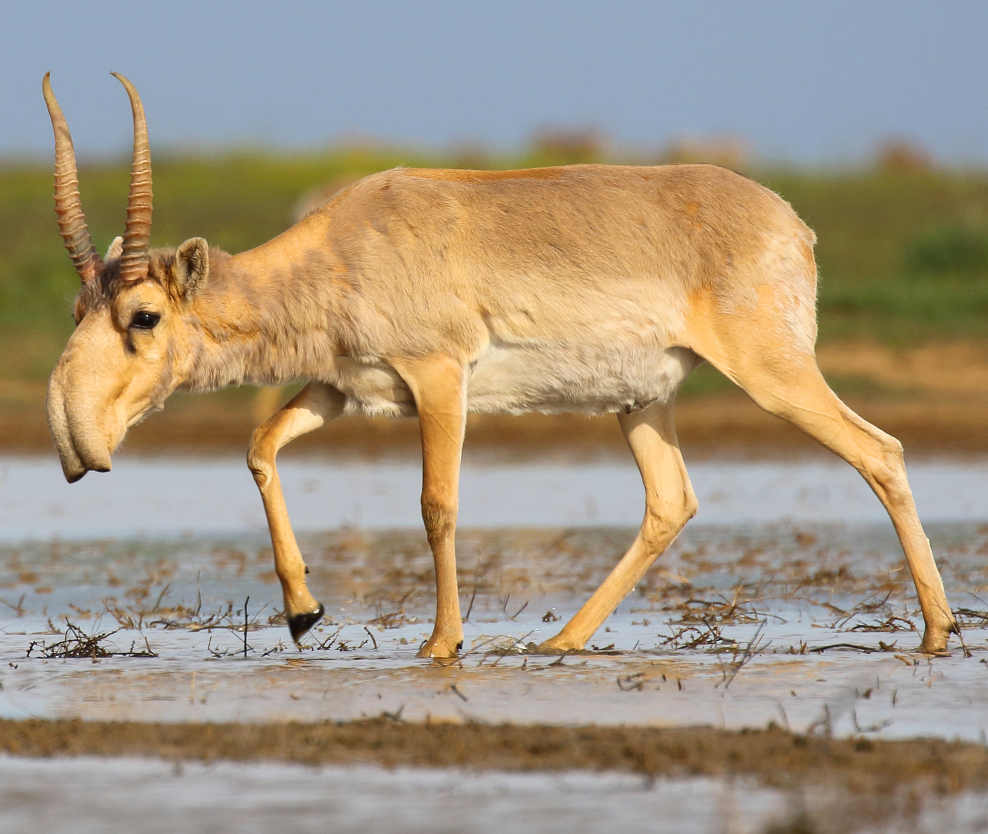 Wild saiga antelope, Saiga tatarica tatarica visiting a waterhole at the Stepnoi Sanctuary, Astrakhan Oblast, Russia.